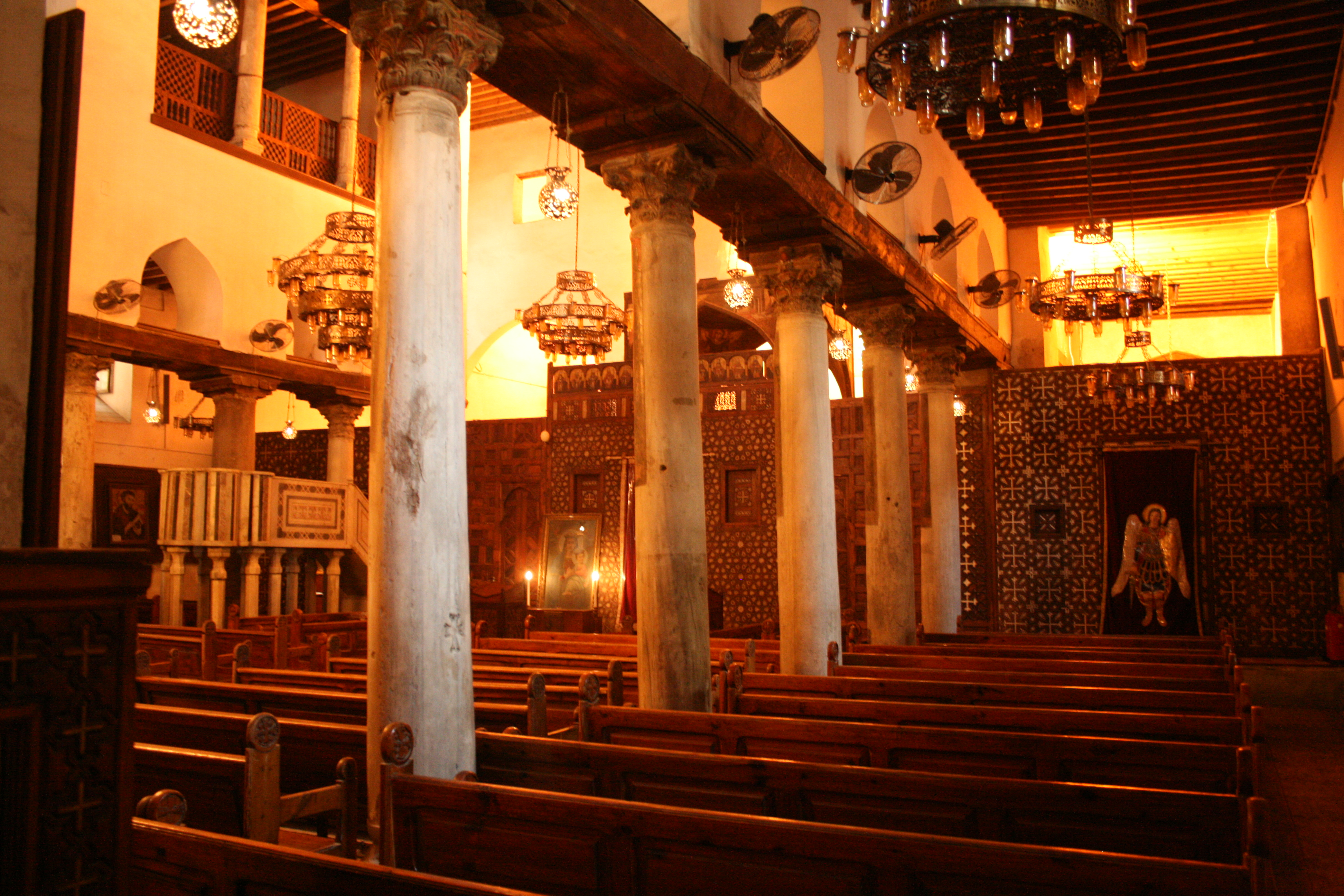 St. Barbara, coptic church, Old Cairo, Egypt